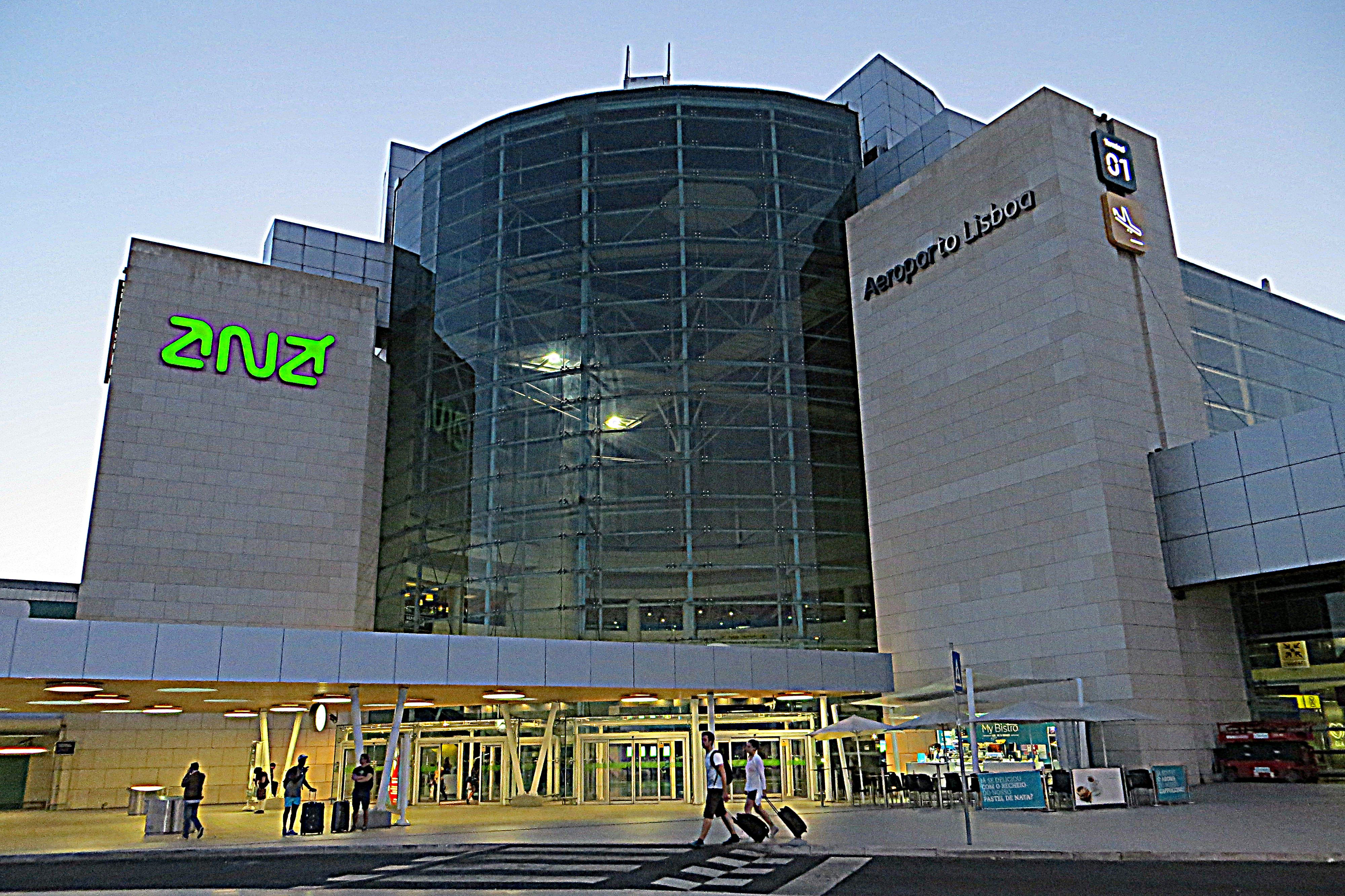 Lisbon Airport, Portugal